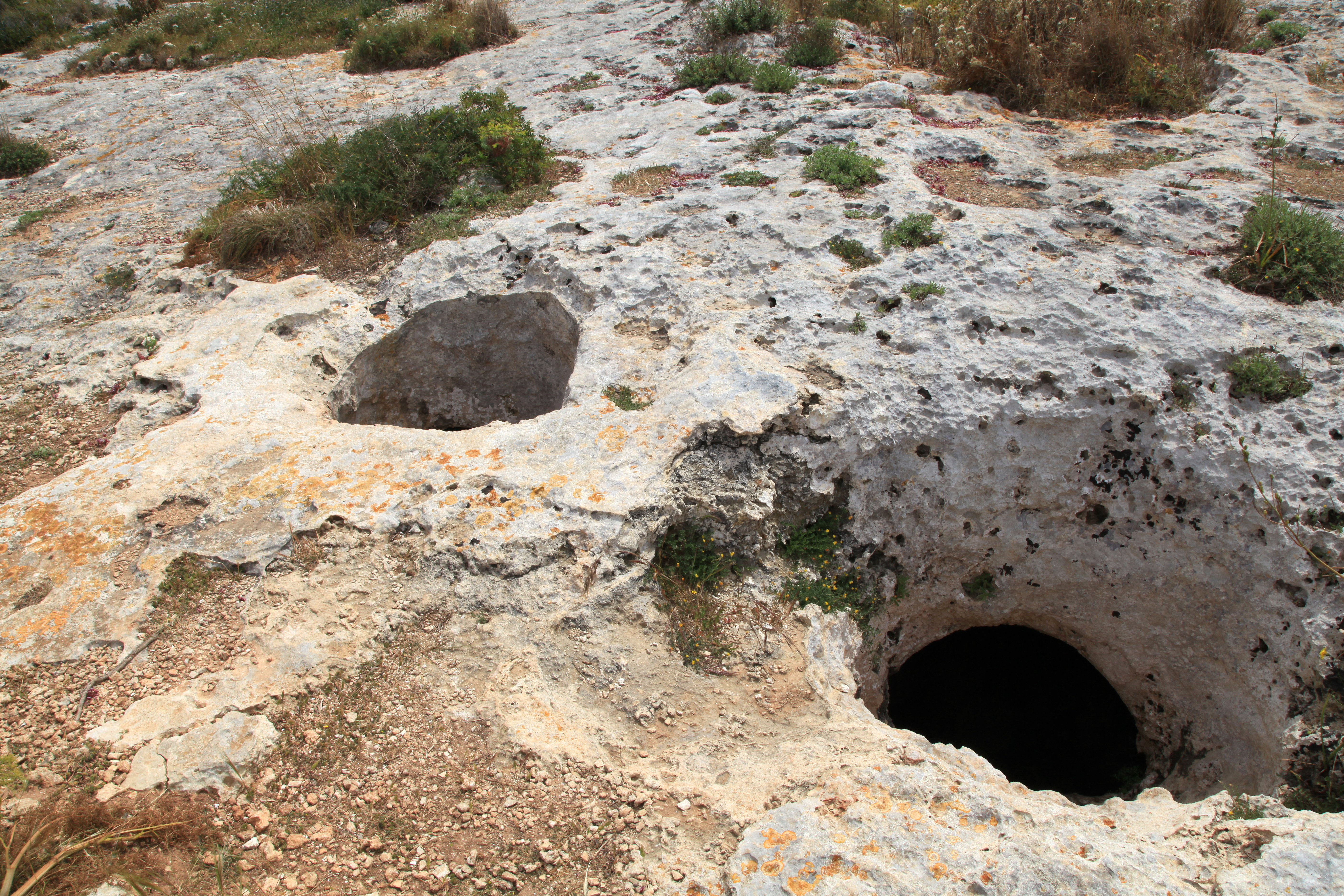 Xemxija Tombs, Xemxija Heritage Trail in St. Paul's Bay, Malta